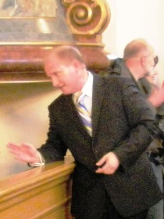 Theodore Kuchar, conductor